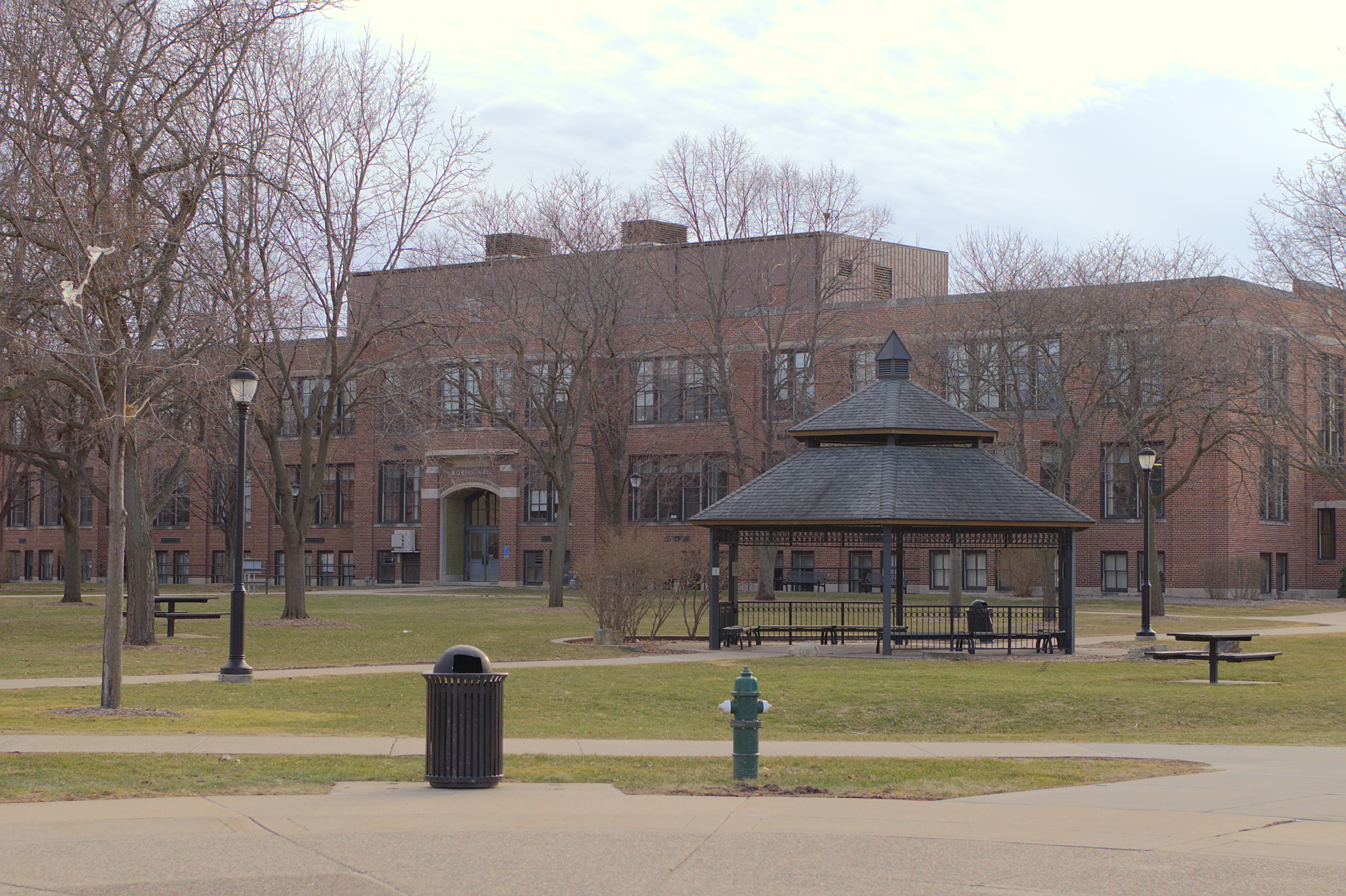 Morris Hall currently houses some classrooms and the College of Liberal Studies (CLS) offices.